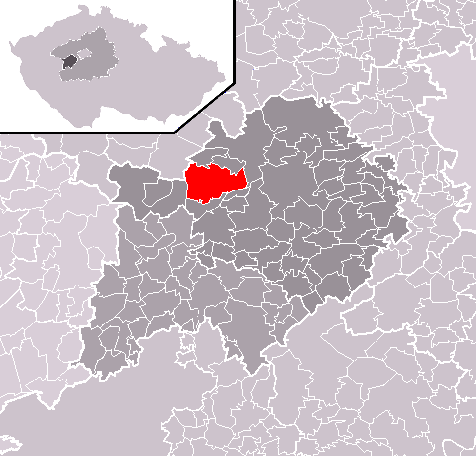 Location of Hudlice municipality within Beroun District and administrative area of Beroun as a Municipality with Extended Competence.